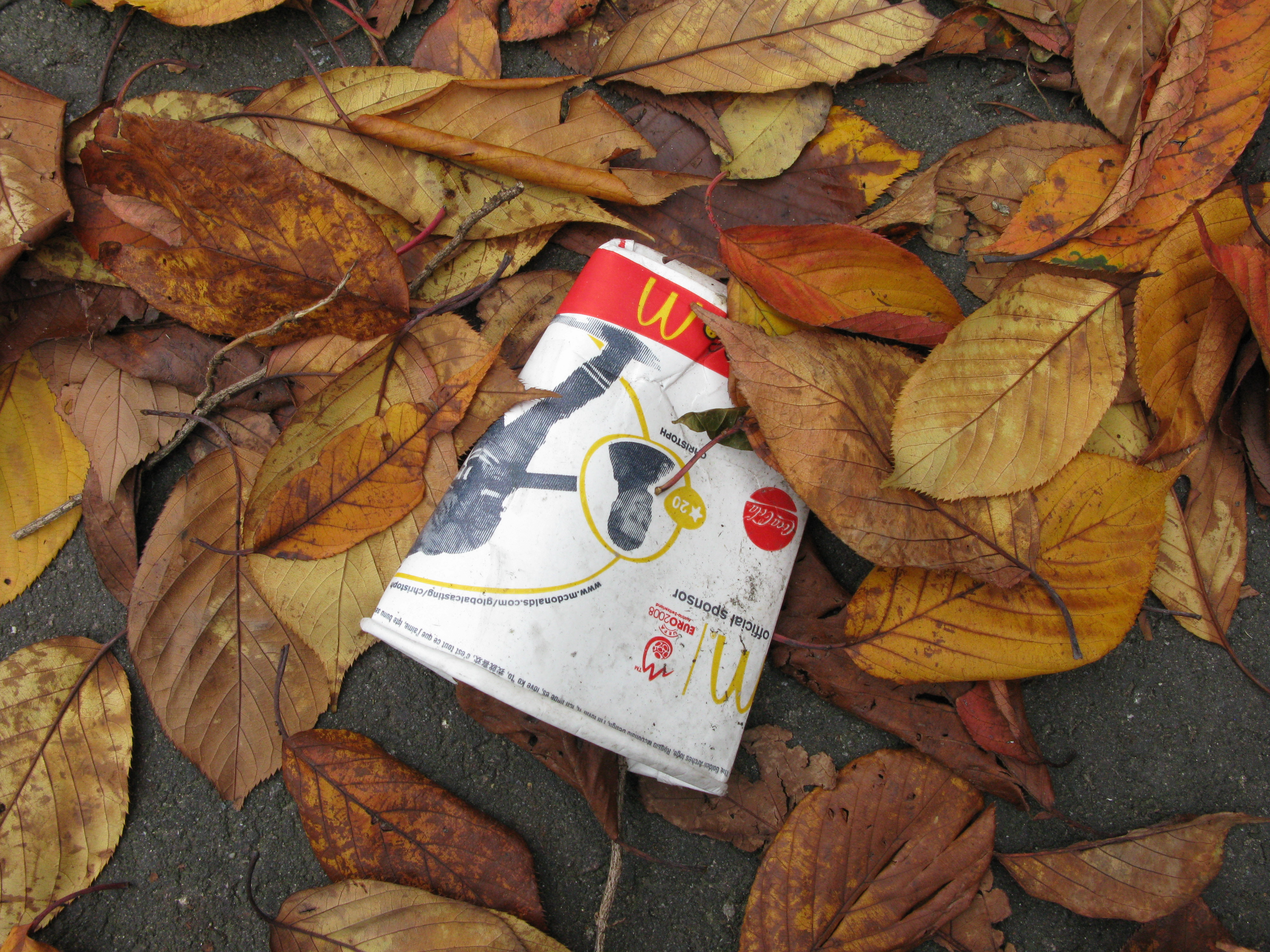 Discarded McDonalds packaging